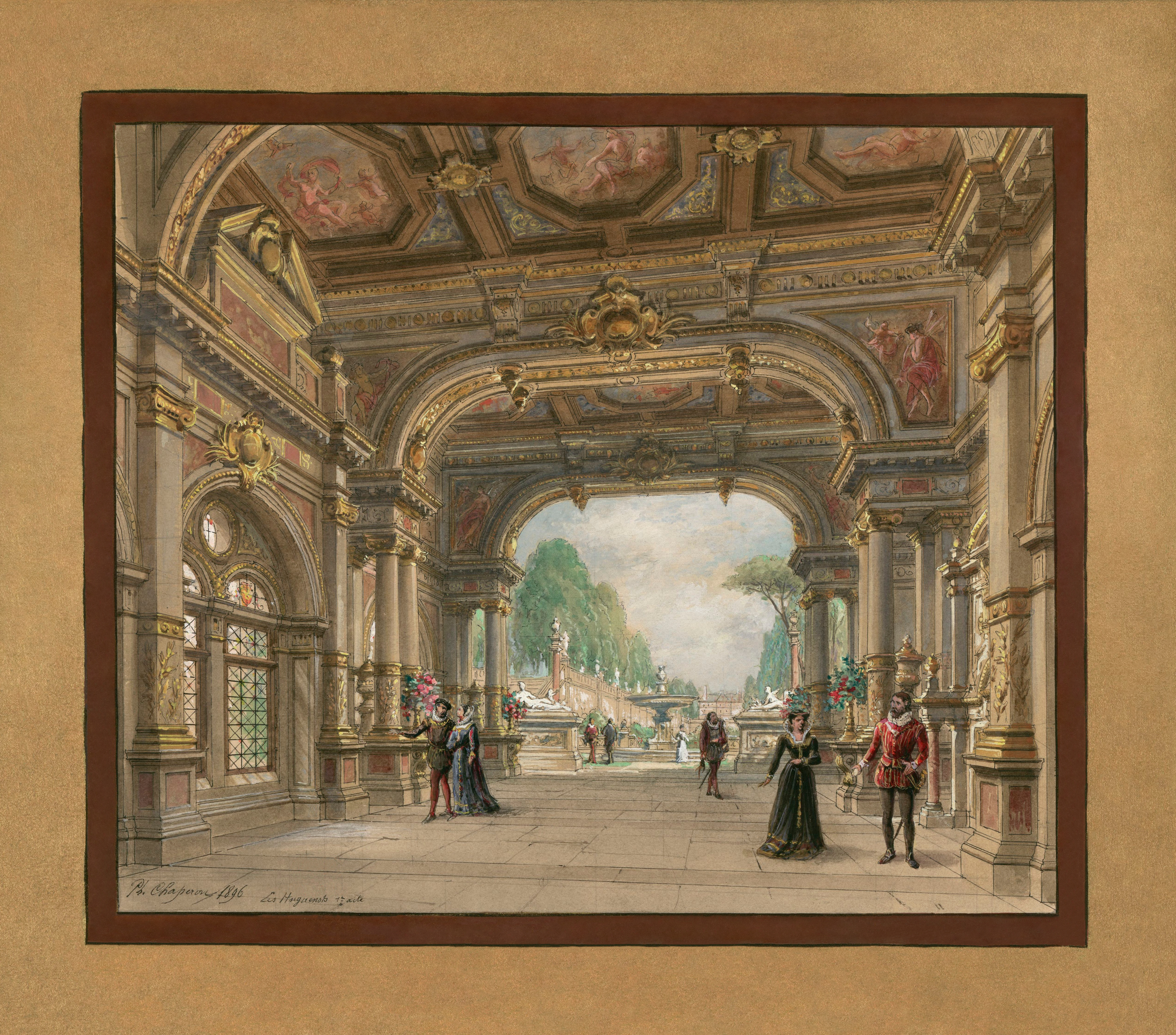 Les Huguenots: sketch of the opera set for the first act (1896). Pen, watercolour and gouache; 380 x 442 mm. For the Théâtre national de l'Opéra - Palais Garnier production of 7 June 1897. See also File:Meyerbeer Huguenots ActI maquette AugusteRubéPhilippeChaperon.jpg, a model of the set.